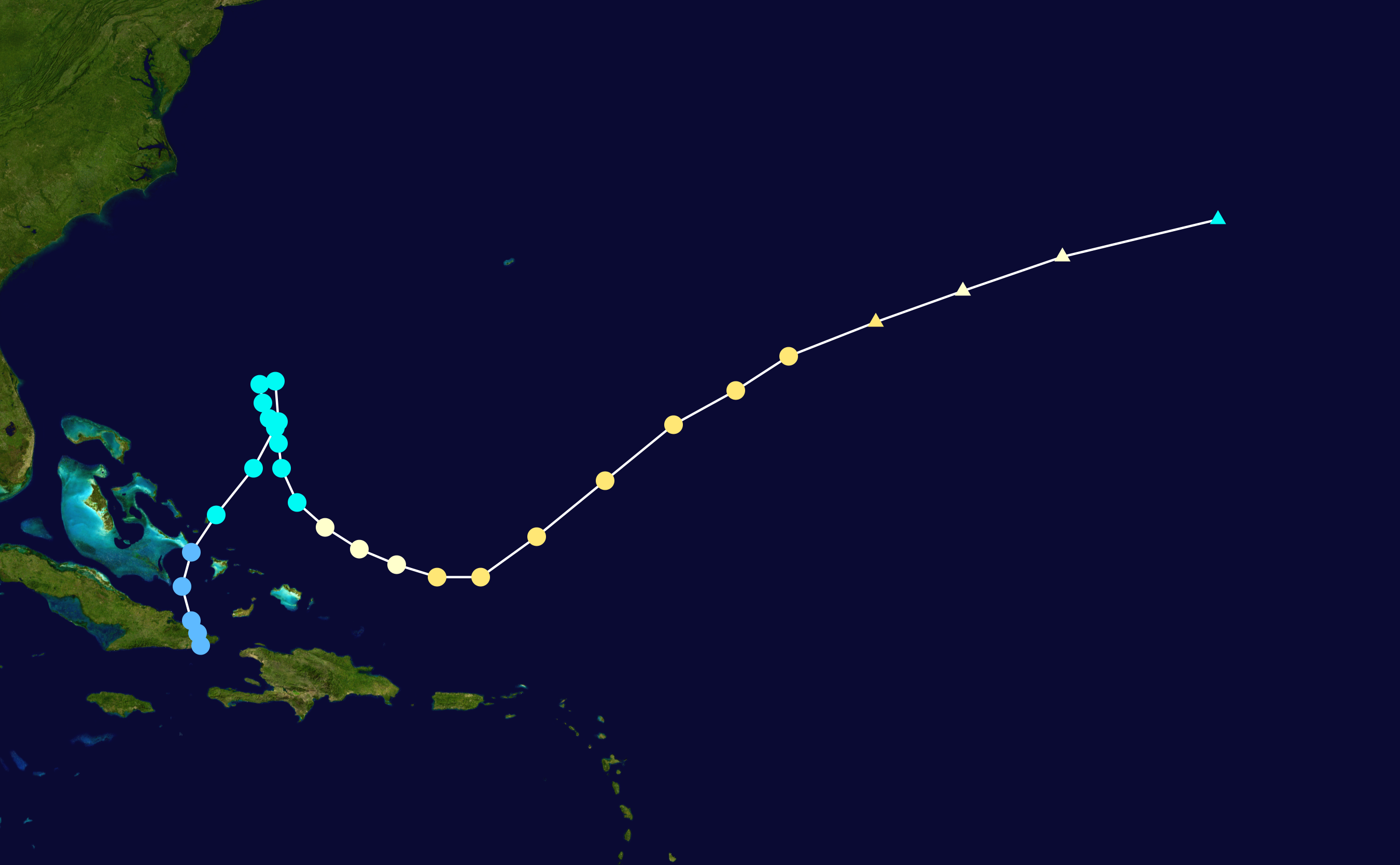 Hurricane Greta (1956) track. Uses the color scheme from the Saffir-Simpson Hurricane Scale.